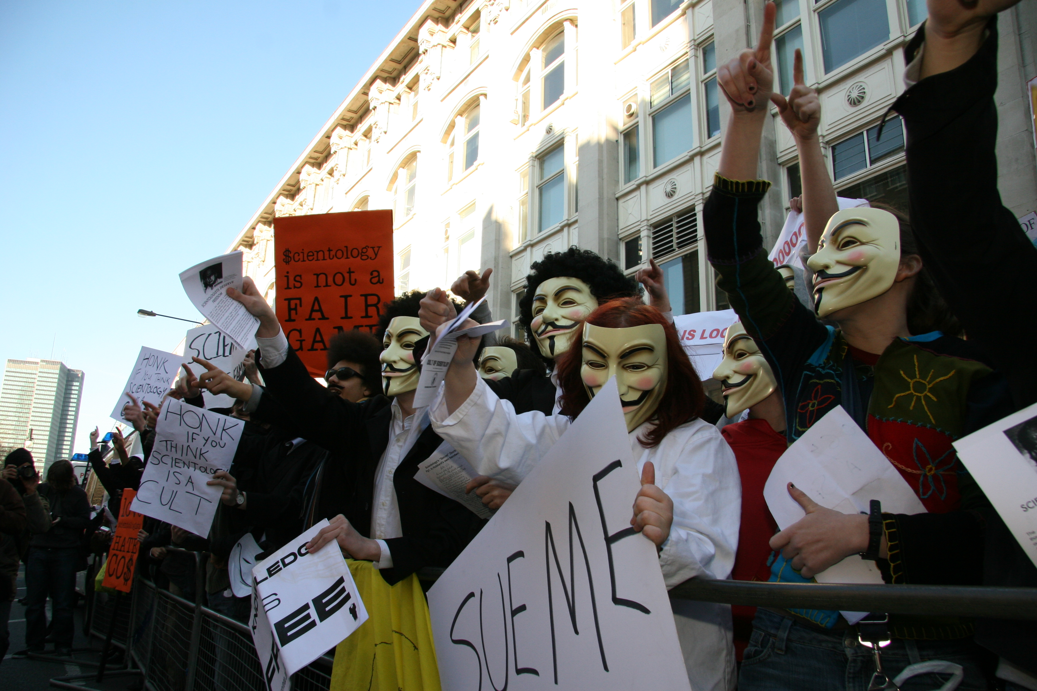 February 10th Anonymous Protests: Protesters